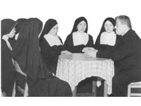 father Antonio Cavoli (SDB) with the Caritas Sisters of Miyazaki